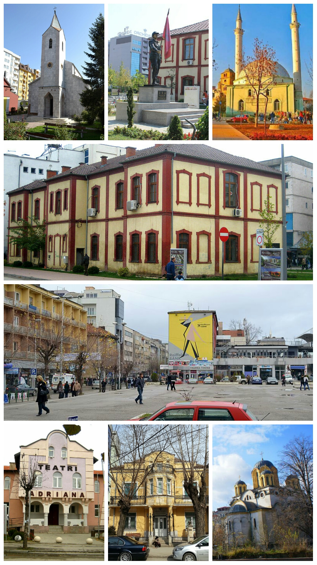 Uroševac- photomontage (Catholic Church in Ferizaj/Uroševac, Monument to the heroine, Ferizaj mosque, Library "Sadik Tafarshik", City center, Theater "Adriana", Historical library in Ferizaj/Uroševac, The Cathedral of the Holy Emperor Uros)